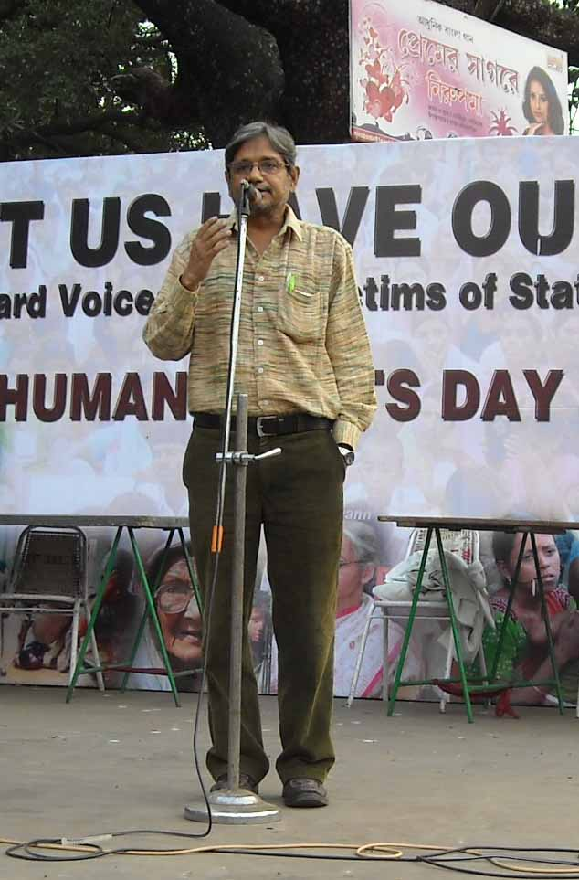 Mohit Ray speaking on the occasion of Human Rights Day on 10 December 2011 at the podium in front of the Academy of Fine Arts in Kolkata